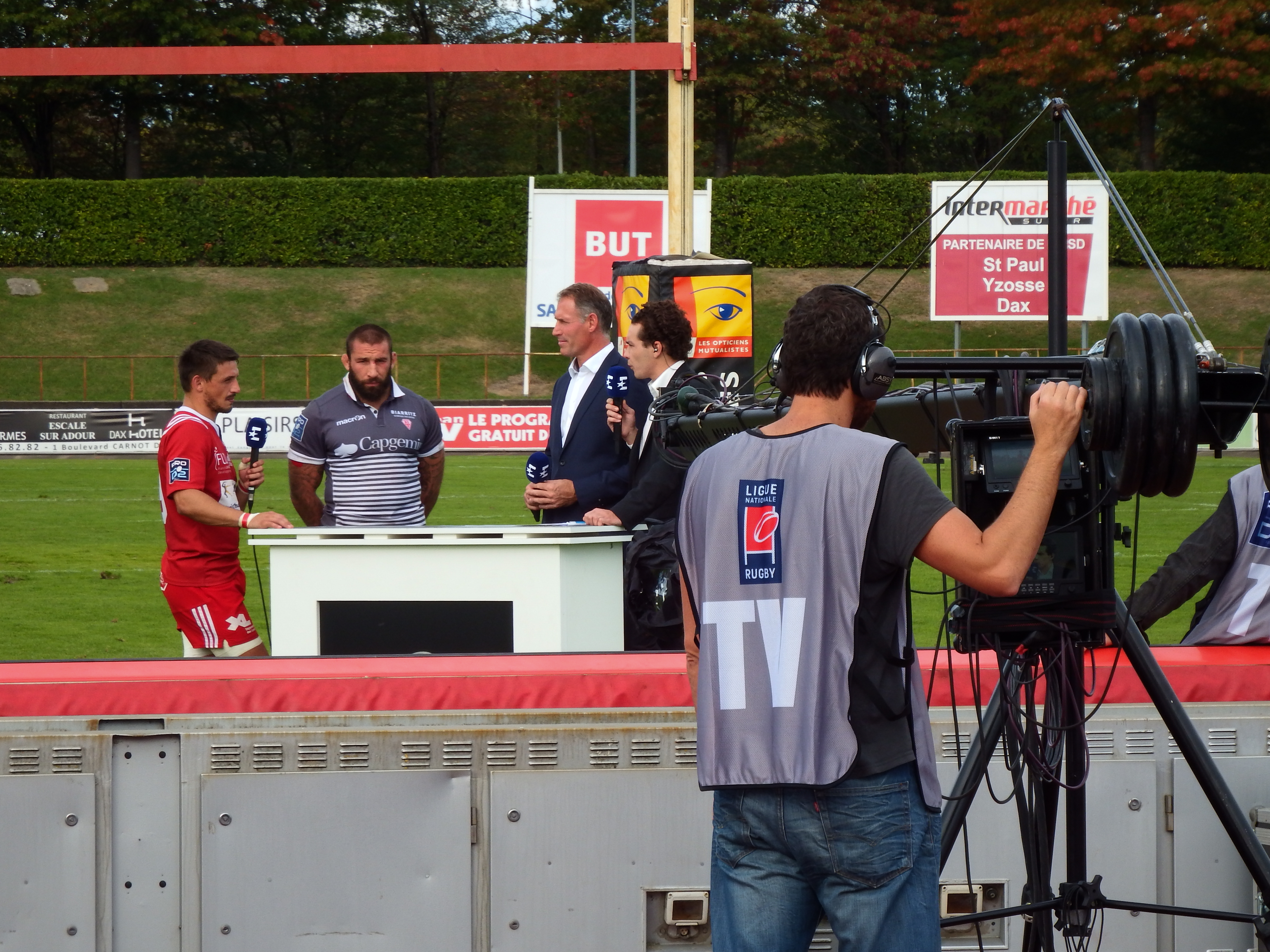 2016–17 Rugby Pro D2 season — 23 October 2016, Stade Maurice Boyau. Match between: US Dax — Biarritz Olympique